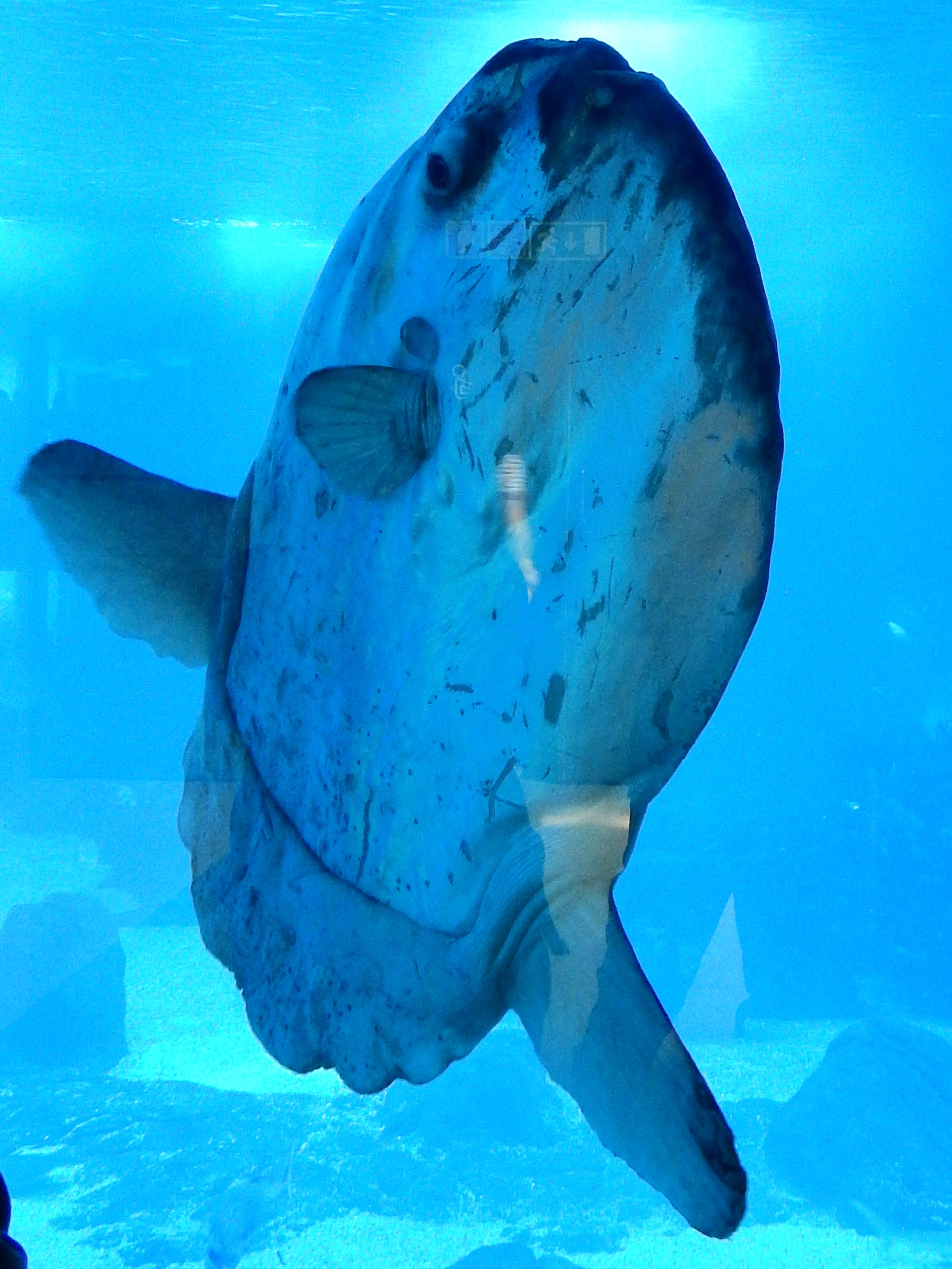 Mola mola in the Lisbon Oceanarium, Portugal. April 2019.